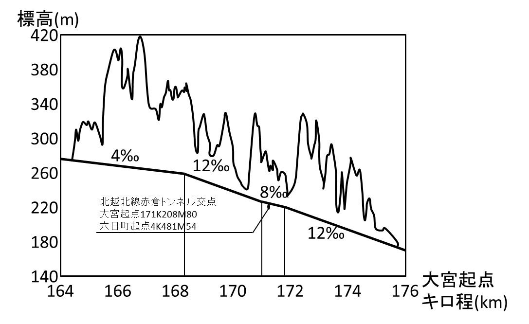 Cross-sectional drawing of Shiozawa tunnel on Joetsu Shinkansen, Minamiuonuma, Niigata, Japan.